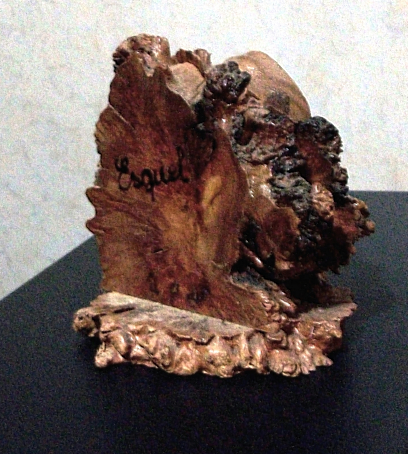 An ornamental clipboard made of coihue heartwoood.